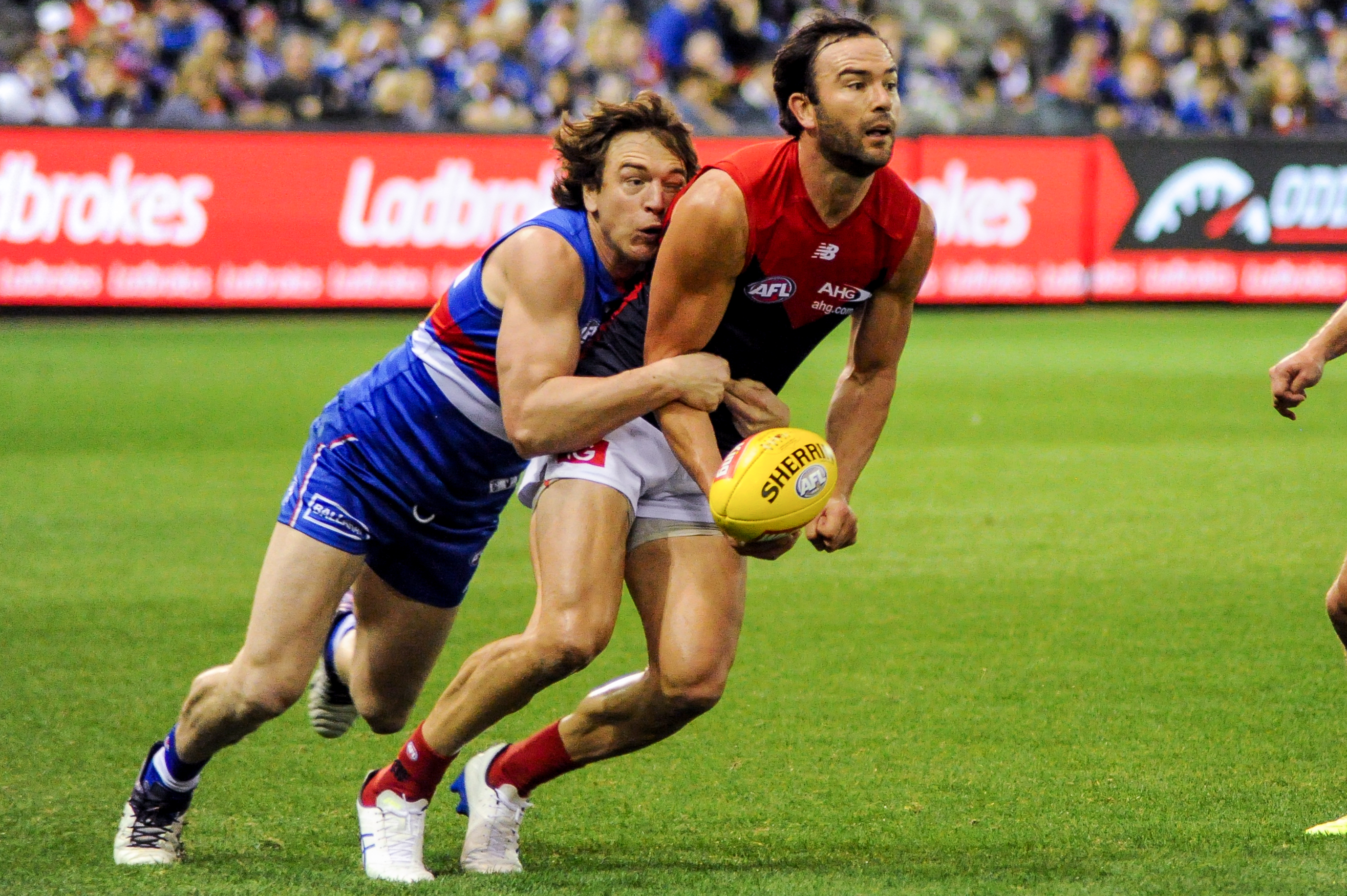 Liam Picken tackling Jordan Lewis while handballing during the AFL round thirteen match between the Western Bulldogs and Melbourne on 18 June 2017 at Etihad Stadium in Melbourne, Victoria.